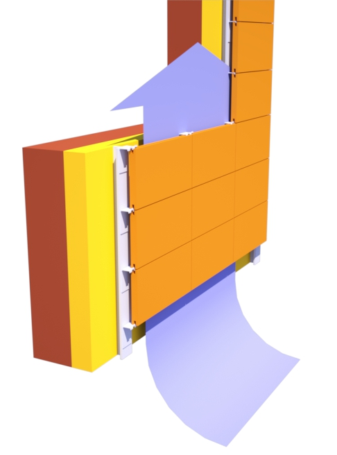 A ventilated wall scheme, cladding is drawn as ceramic panels 250x500x30, aluminium fixing support, arrow demonstrates the air circulation direction, the yellow layer is an insulation 100 mm and the red wall 200 mm gets all wind loads and transfers them to a load-carrying structure. Made with Google SketchUp, rendered with Fryrender.